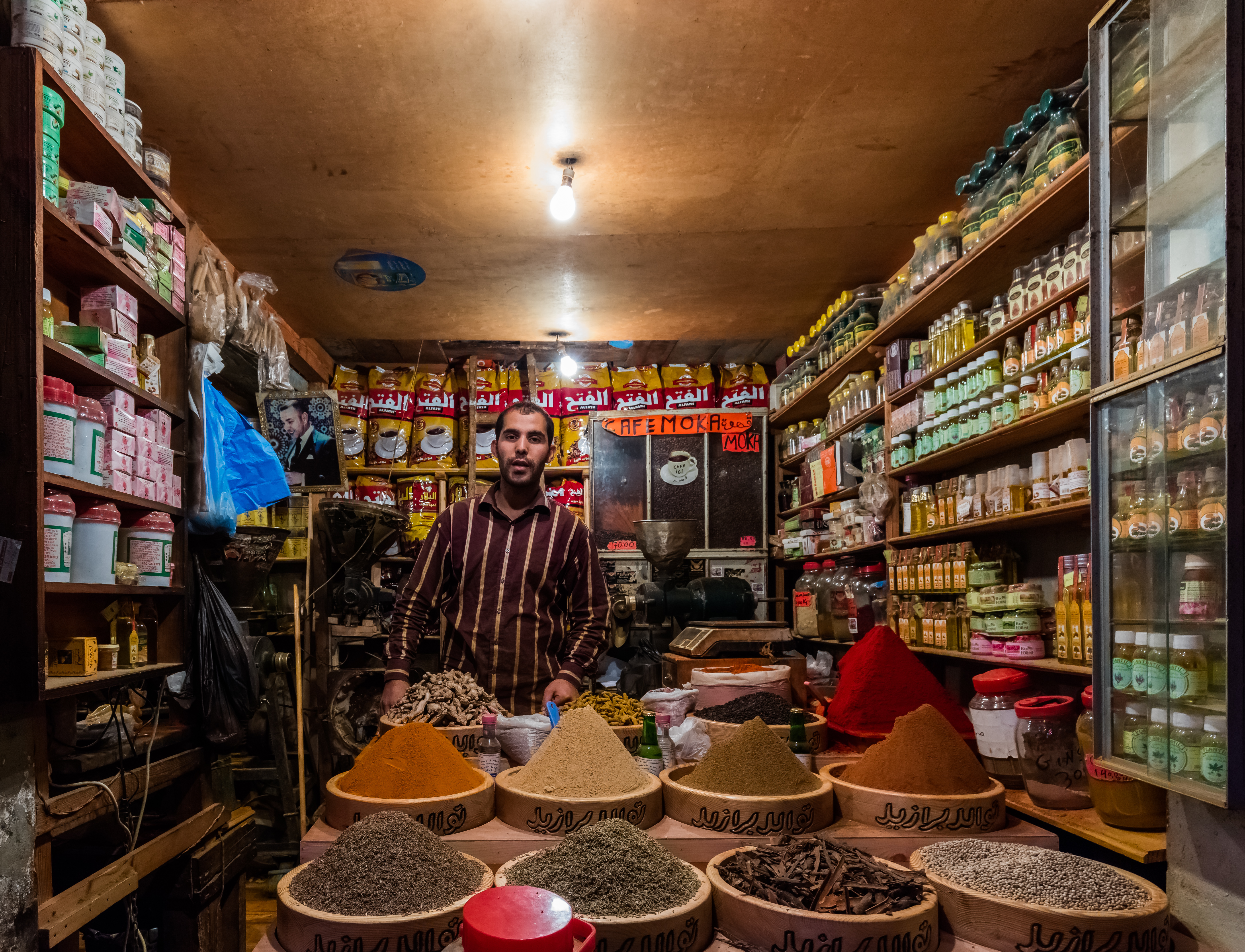 Grocery and cosmetics shop in the April 9th 1947 Square, better known as Grand Socco, Tangier, Morocco.